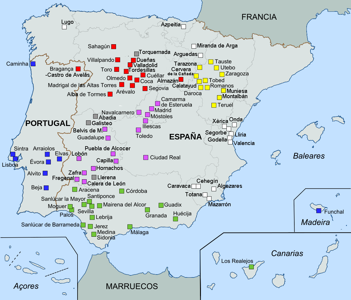 Location of some of the main sites of Mudéjar architecture in Spain and Portugal: First phase (grey) and regional groups: Portugal (blue); Aragon (yellow); Castile & León (red); Toledo (purple); Andalusia (green); others (white)